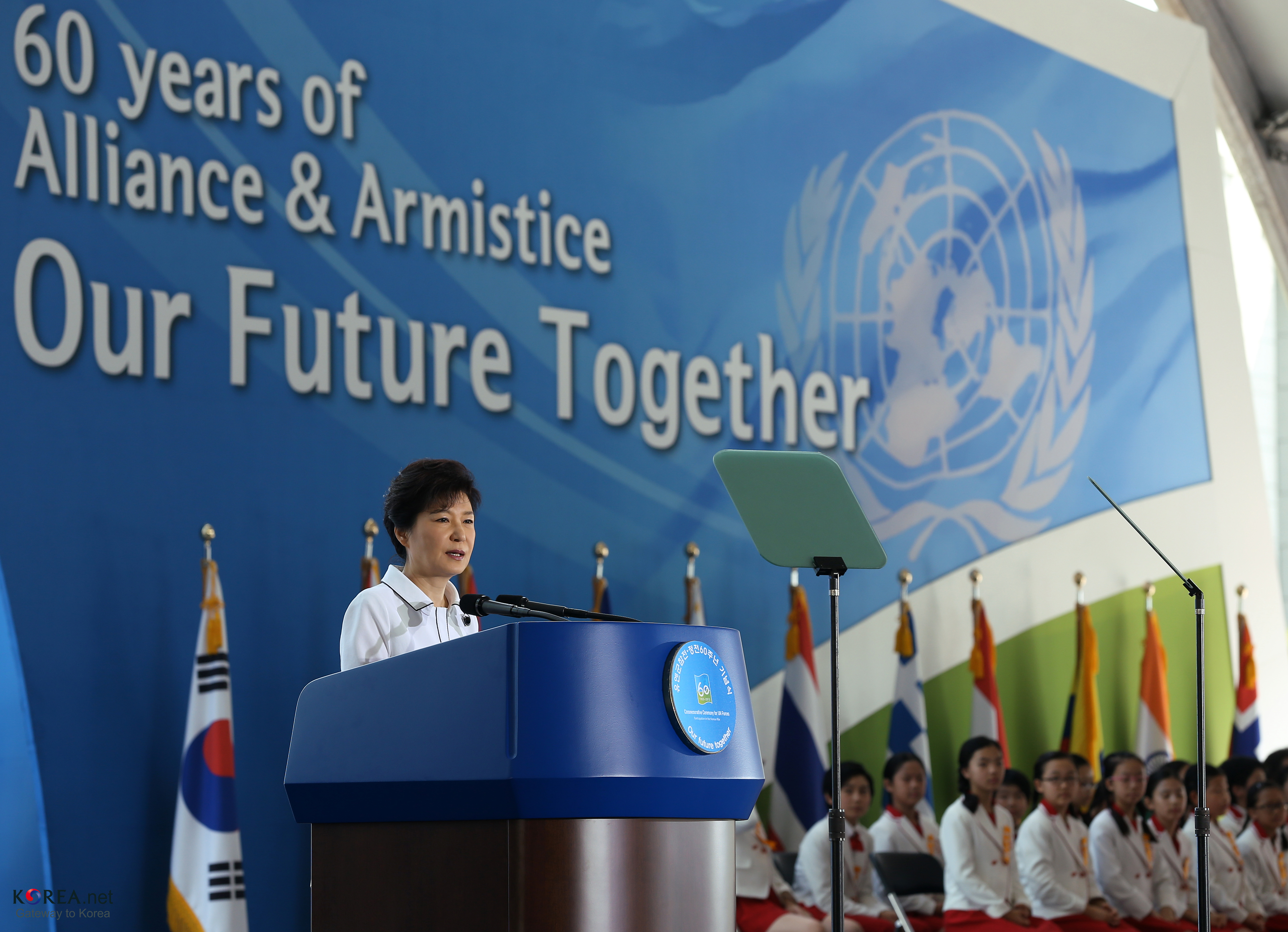 President Park Guen-hye delivers a speech during a Korean War at the ceremony marking the 60th anniversary of the signing of the armistice agreement at the War Memorial of Korea in Seoul, July 27, 2013. 2013-07-27 Korea War Memorial Museum, Seoul -Related Articles- -English- War veterans visit Korea to remember scars President thanks war veterans -Español- La presidenta manifestó su agradecimiento a veteranos de guerra -中文- 朴槿惠：深切感谢参战士兵的崇高牺牲 “共同回忆，面向未来” 朝鲜战争参战国主要人士相继访韩 - tiếng Việt- Tổng thông cảm ơn cựu chiến binh chiến tranh Chuyến thăm Hàn Quốc của các nhà lãnh đạo các nước tham chiến chiến tranh Hàn Quốc ‘Cùng khắc ghi và hướng đến tương lai -日本語- 朴槿恵大統領、「朝鮮戦争に参戦した兵士の貴い犠牲に深い感謝」 「ともに記憶し、未来に向かって」、朝鮮戦争参戦国の関係者が相次いで来韓 - Deutsche - Präsidentin dankt Kriegsveteranen -Français- La Présidente remercie chaleureusement les anciens combattants La visite de vétérans de la guerre de Corée rappelle les cicatrices du pays - русский- Президент выражает благодарность ветеранам войны Ветераны войны приезжают в Корею почтить память павших -Arabic- الرئيسة توجه التحية إلى قدامى المحاربين قدامى المحاربين يزورون كوريا لاسترجاع الذكريات المخيفة Ministry of Culture, Sports and Tourism Korean Culture and Information Service ( JEON HAN 박근혜 대통령이 27일 서울 용산구 전쟁기념관에서 열린 유엔군 참전, 한국 전쟁 정전 60주년 기념식에서 인사말을 하고 있다. 전쟁기념관, 용산구, 서울 문화체육관광부 해외문화홍보원 코리아넷 전한